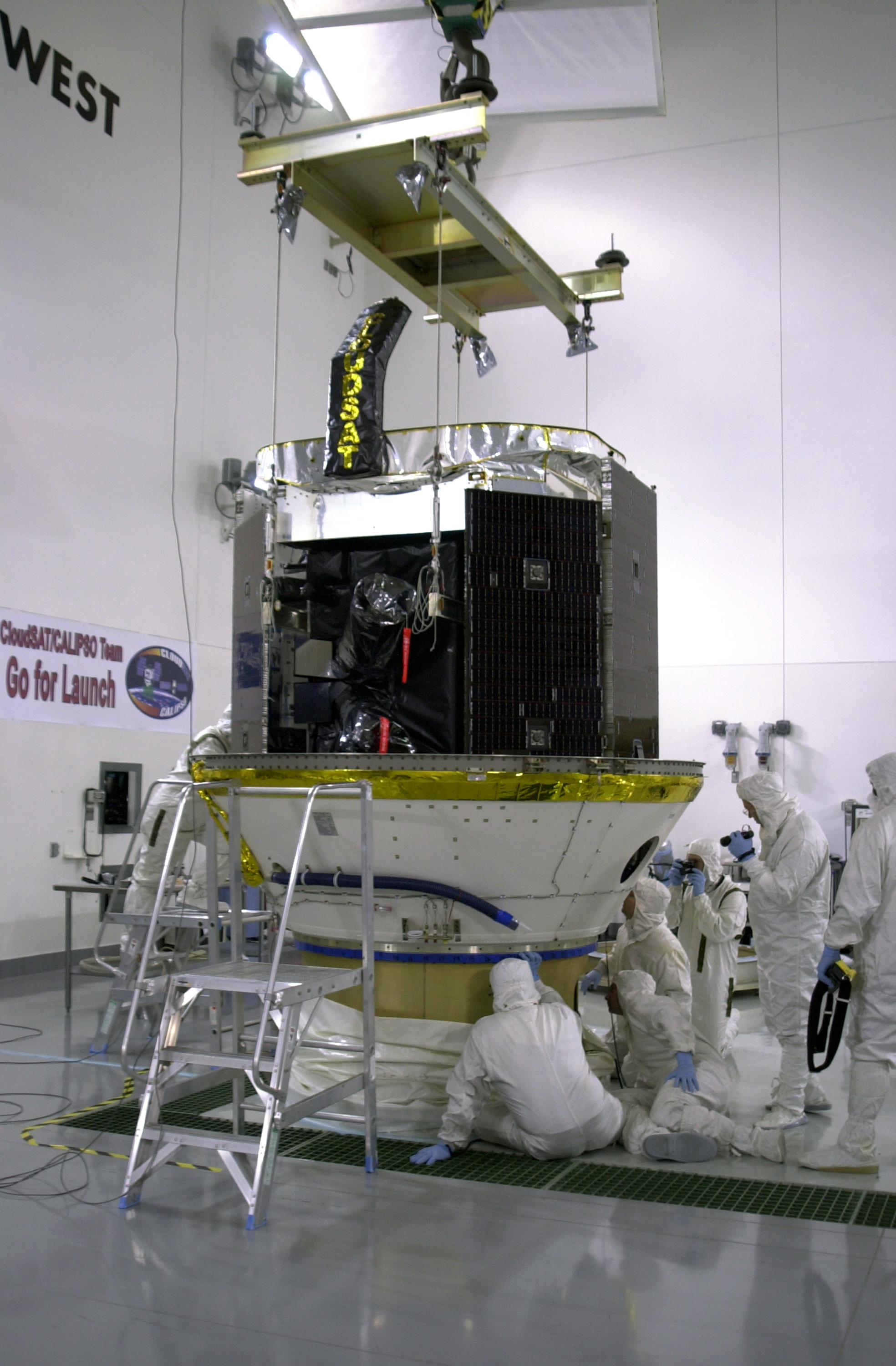 CloudSat in the lower part of the dual-payload attach fitting.